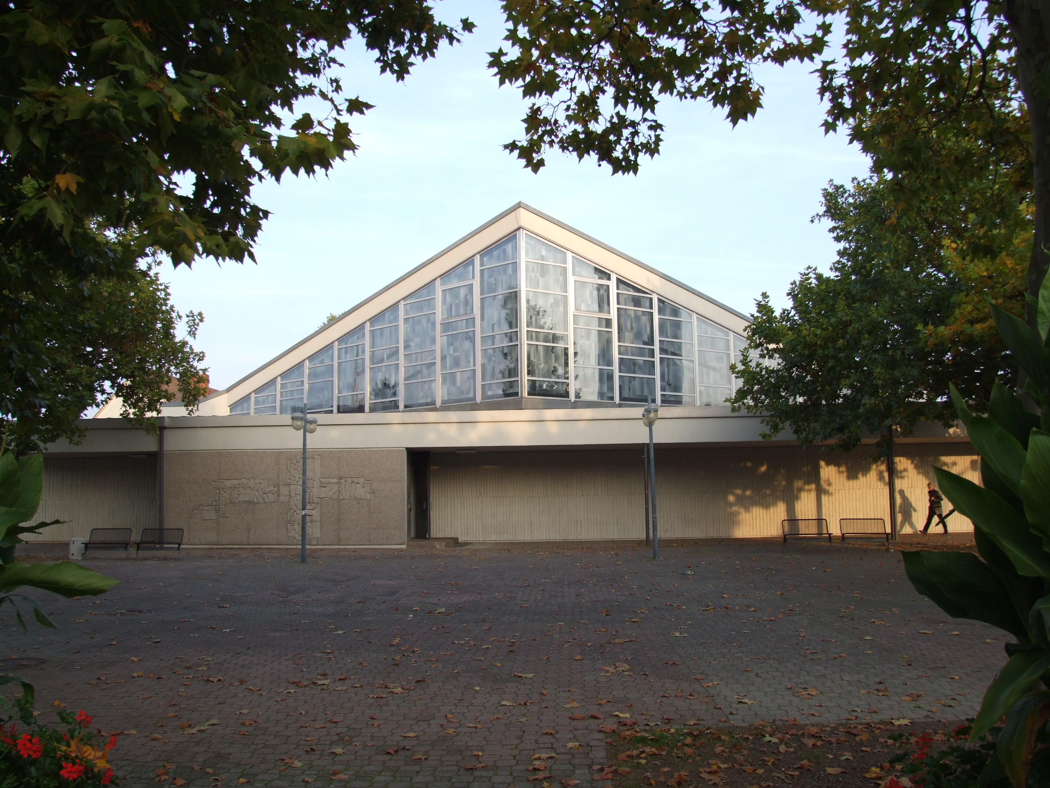 St. Konrad is a catholich church and center in Speyer-Nord, Speyer, Germany. It is a typical example of the beton style of 70ies.